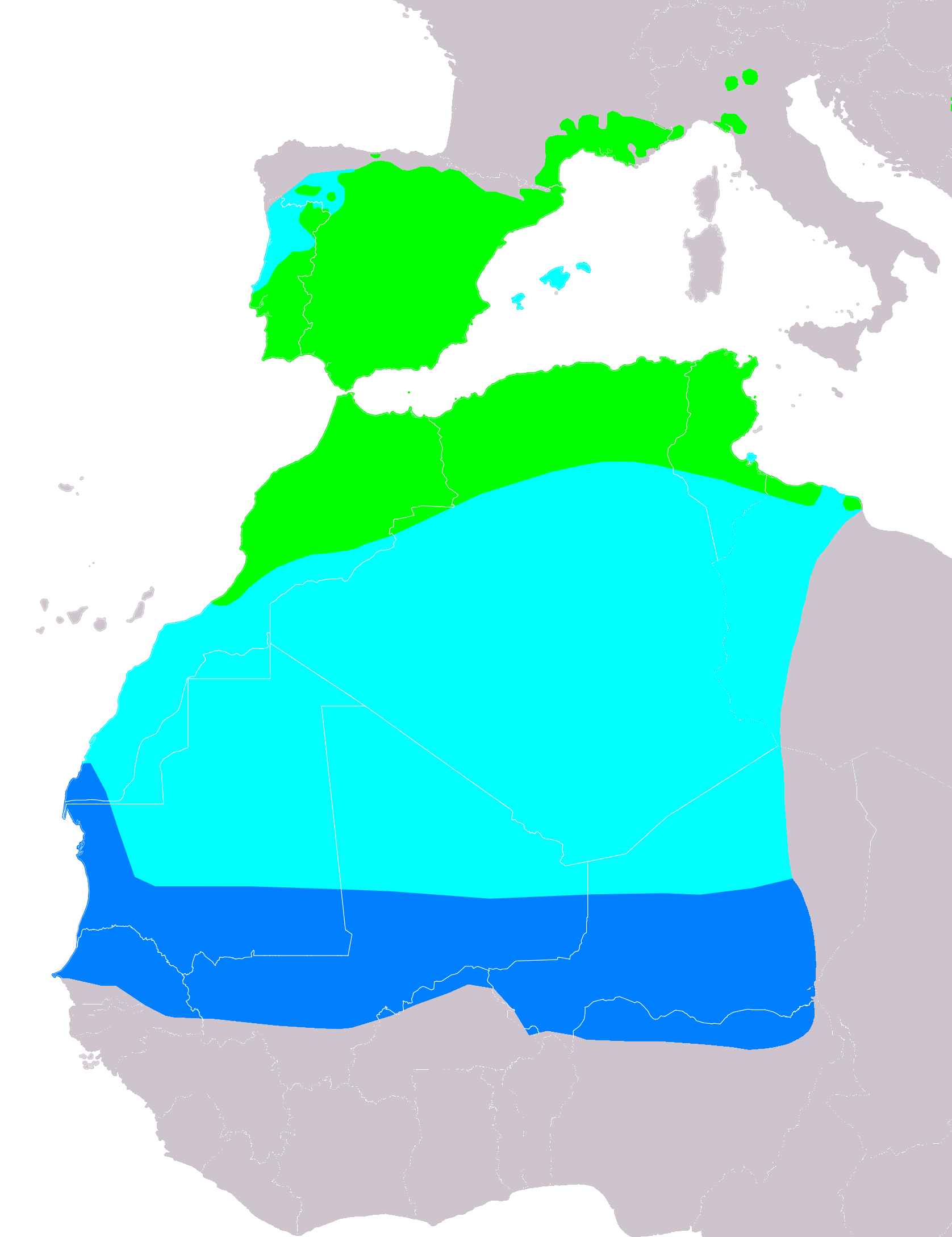 Distribution map of Black-eared Wheatear (Oenanthe hispanica) according to IUCN version 2019.3; key: Legend: Extant, breeding (#00FF00), Extant, passage (#00FFFF), Extant, non-breeding (#007FFF)